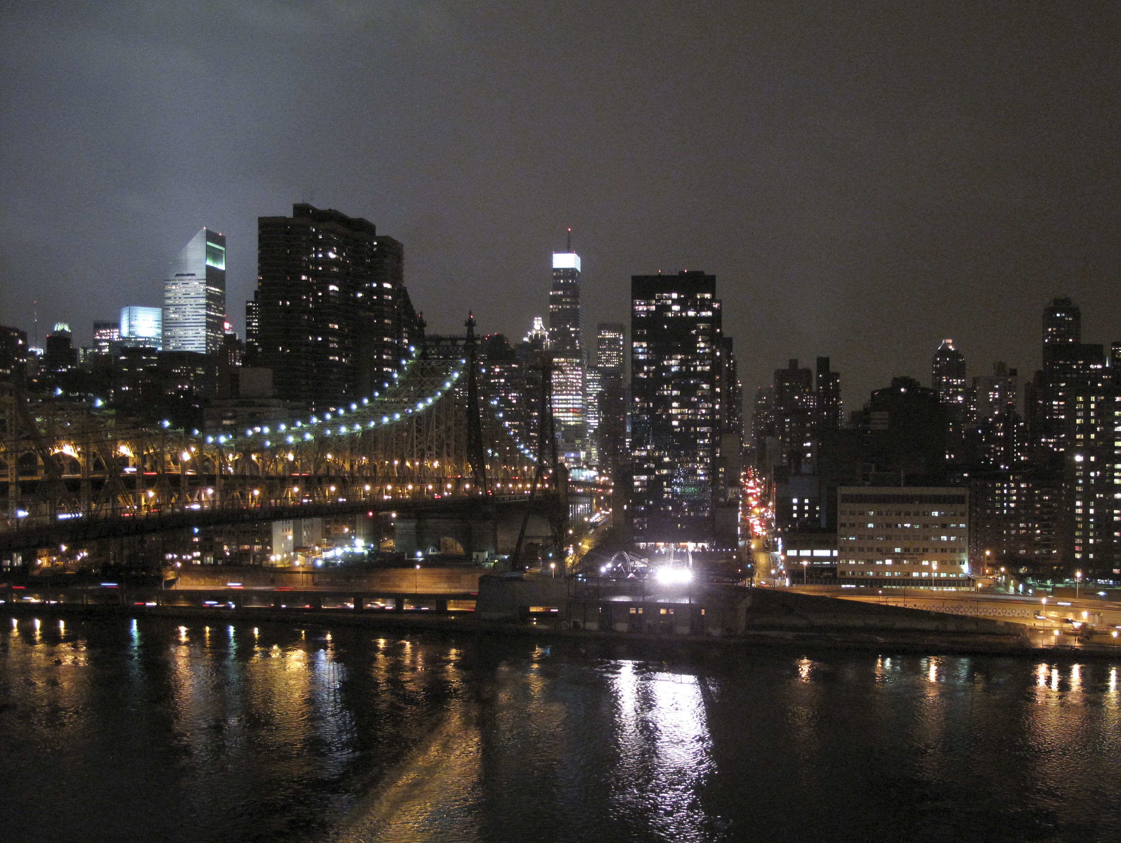 Midtown Manhattan and the Queensboro bridge from Roosevelt Island.